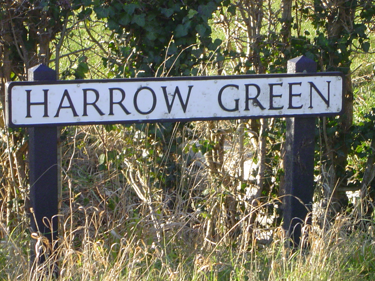 The street sign for Harrow Green, Lawshall, Suffolk